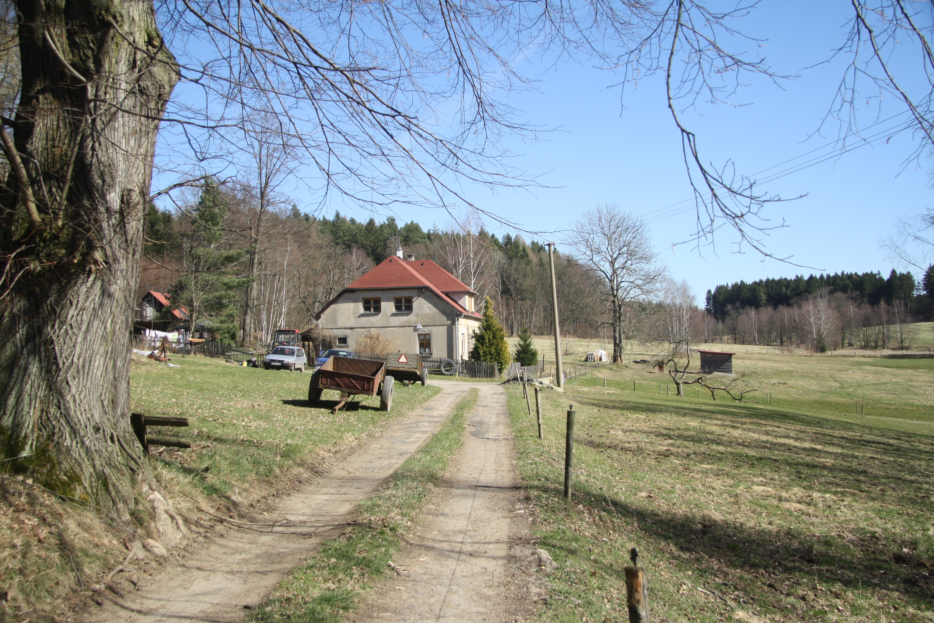 Houses in Harrachov, Šluknov, Děčín District.